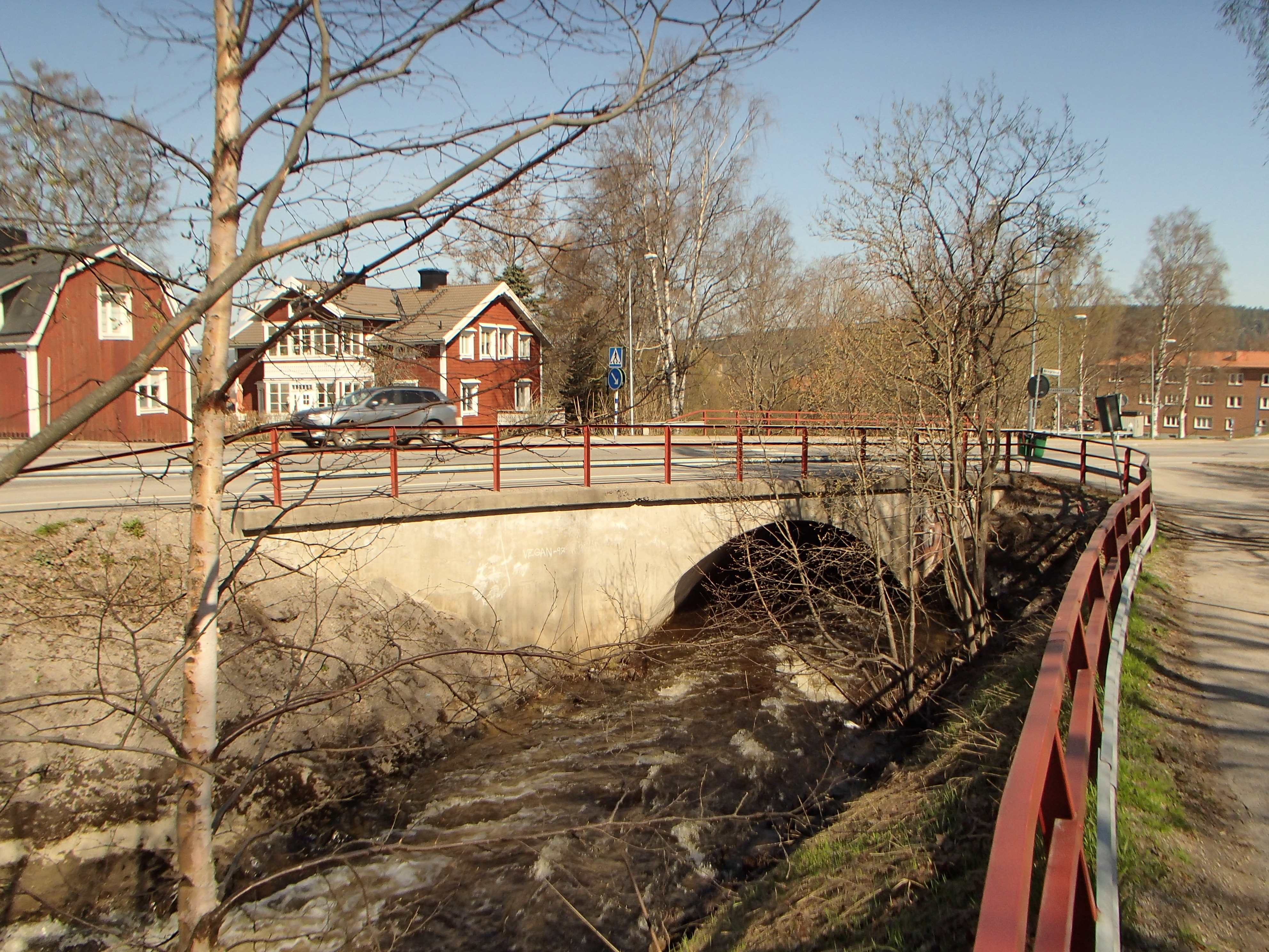 Fagerdalsbron, a bridge across Sidsjöbäcken brook in Sundsvall, Sweden, viewed from south